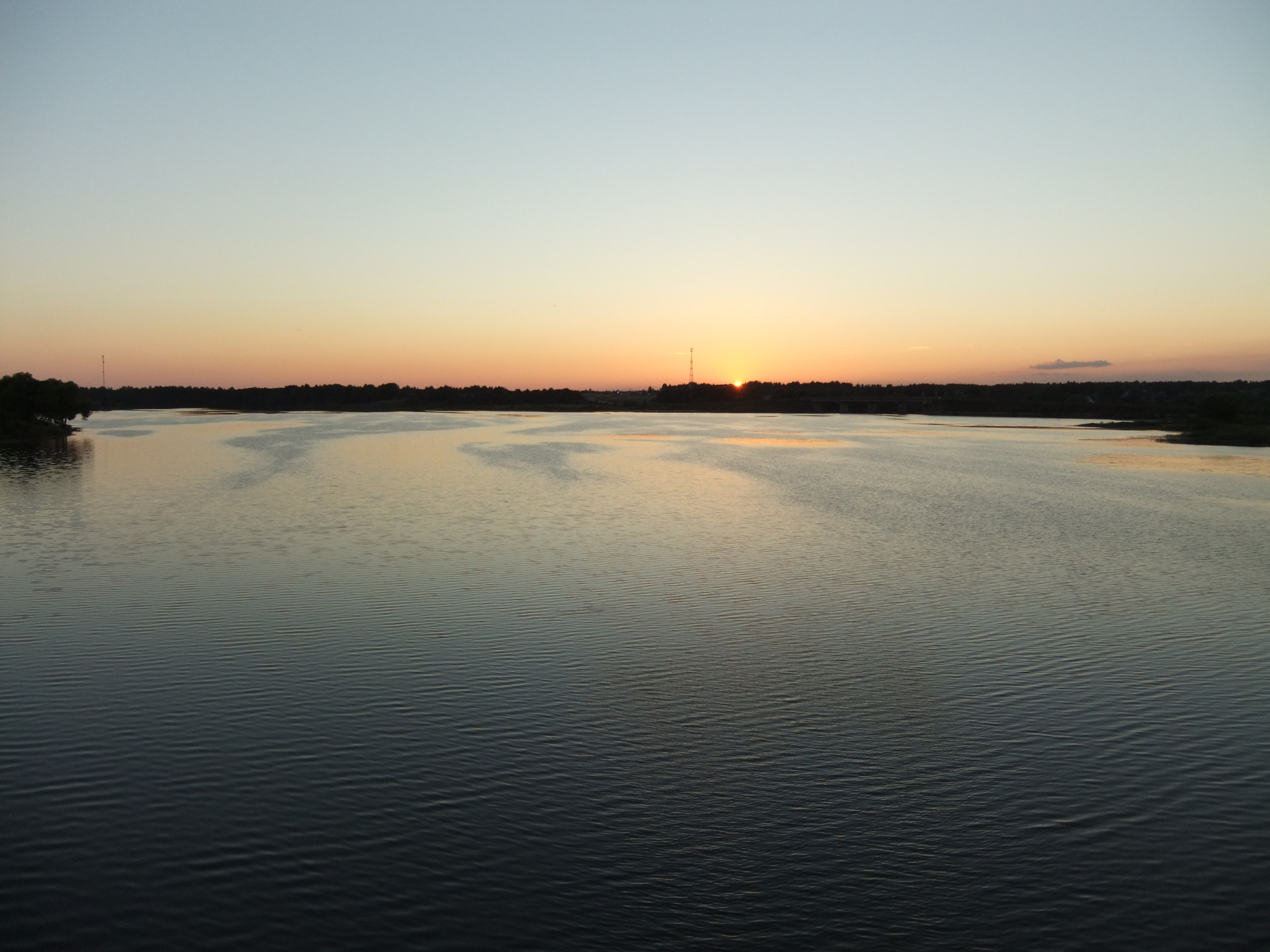 The estuary of the the Sogozha and Soga River in Poshekhonye, around sunset time. Looking west from the Soga River bridge.